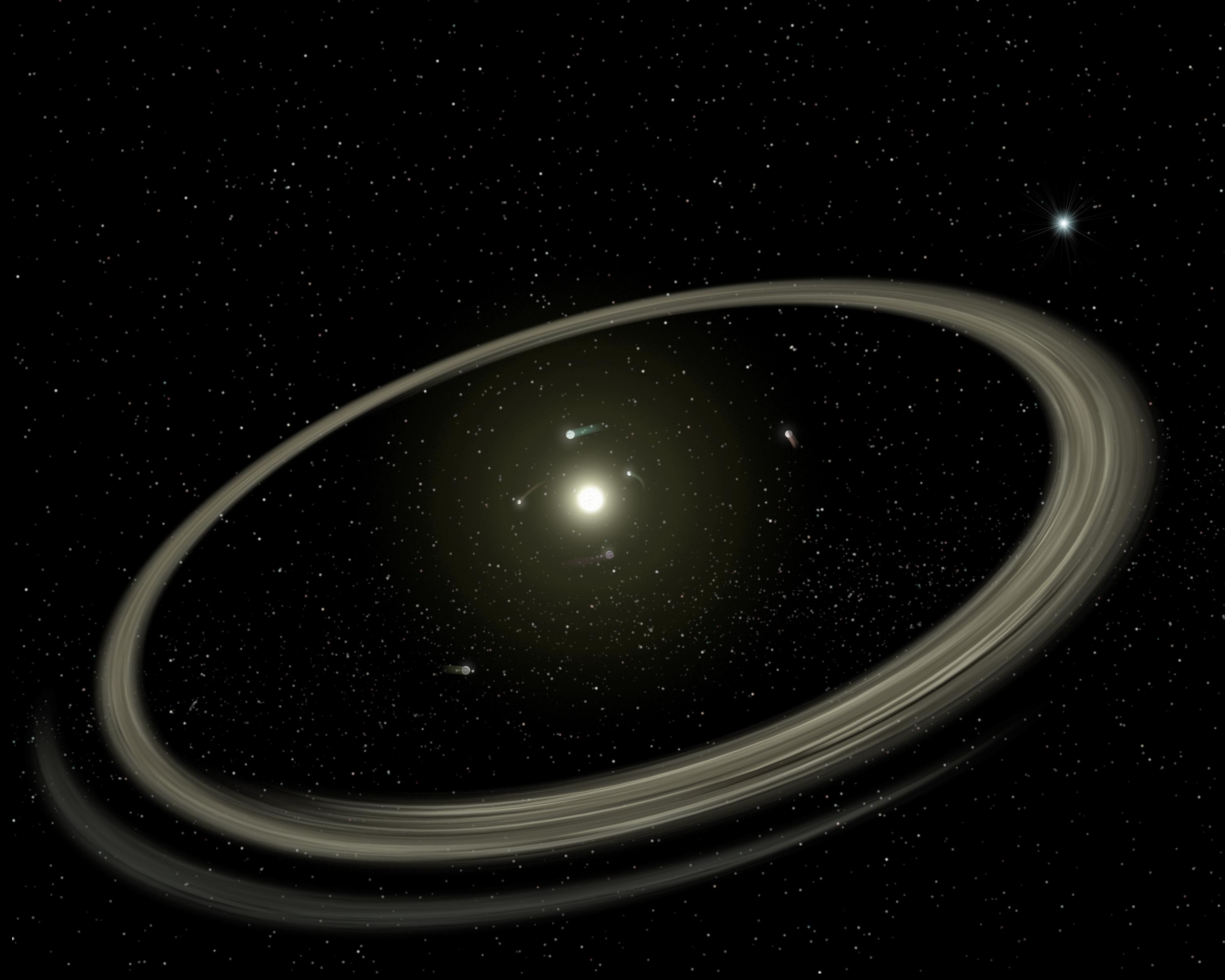 Courtesy NASA/JPL-Caltech Oh yes, it's found here [1]